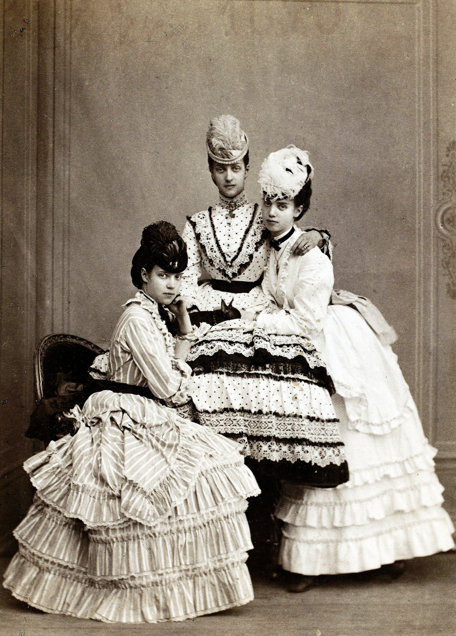 Dagmar (Maria Fyodorovna), Alexandra and Thyra of Denmark